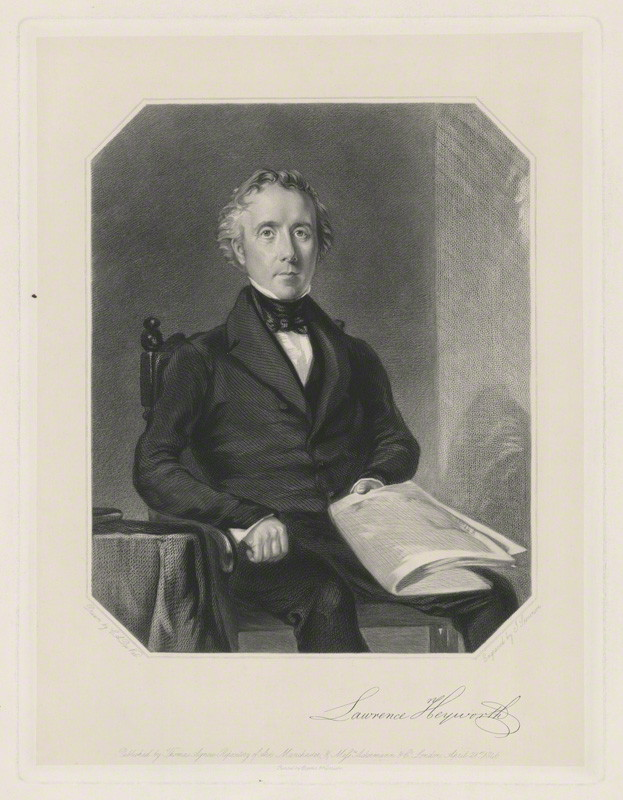 Lawrence Heyworth, Member of Parliament, by J. Stevenson, printed by Brooker&Harrison, published by Thomas Agnew, published by Ackermann&Co, after Charles Allen Duval, line and stipple engraving, published 21 April 1846